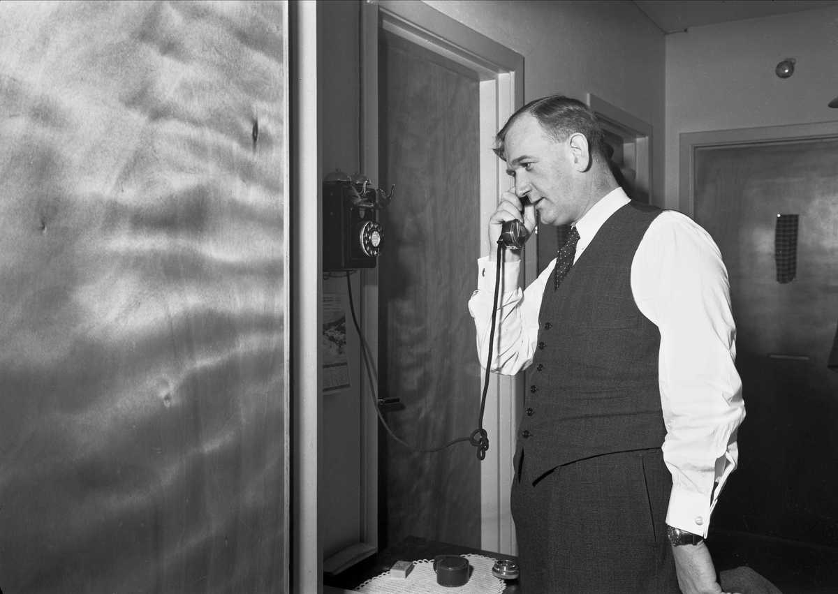 Nils Langhelle (1907–1967), a Norwegian politician for the Labour Party and Minister of Labour 1945-1946, Norway's first Minister of Transport and Communications 1946-1951 and 1951–1952, Minister of Defense 1952-1954, Minister of Trade and Shipping 1954-1955 and President of the Storting from May 7, 1958 to September 30, 1965.